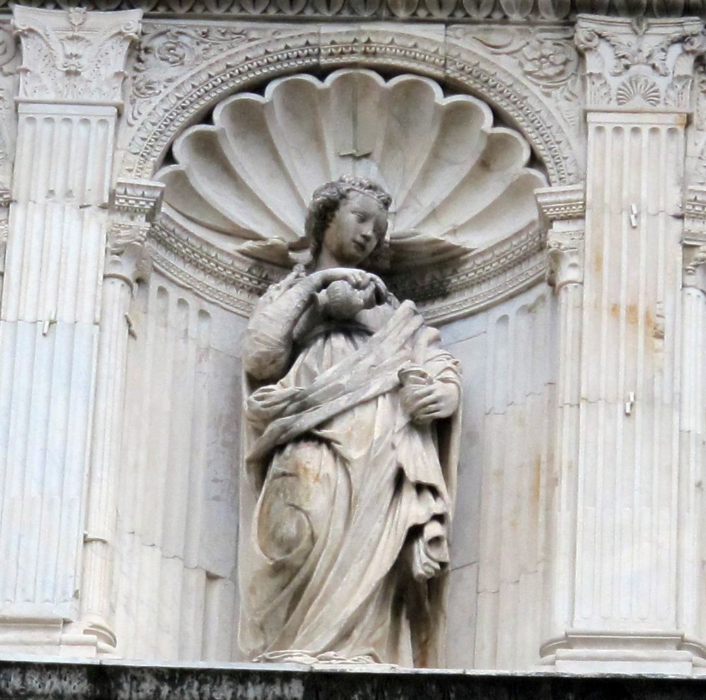 Castel Nuovo (Naples) - Triumphal arch